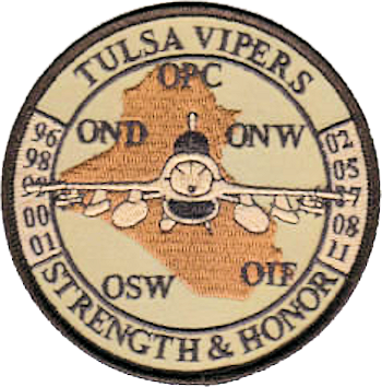 125th Expeditionary Fighter Squadron Operation - gaggle patch OPC = Operation PROVIDE COMFORT OND = Operation NEW DAWN ONW = Operation NORTHERN WATCH OSW = Operation SOUTHERN WATCH OIF = Operation IRAQI FREEDOM